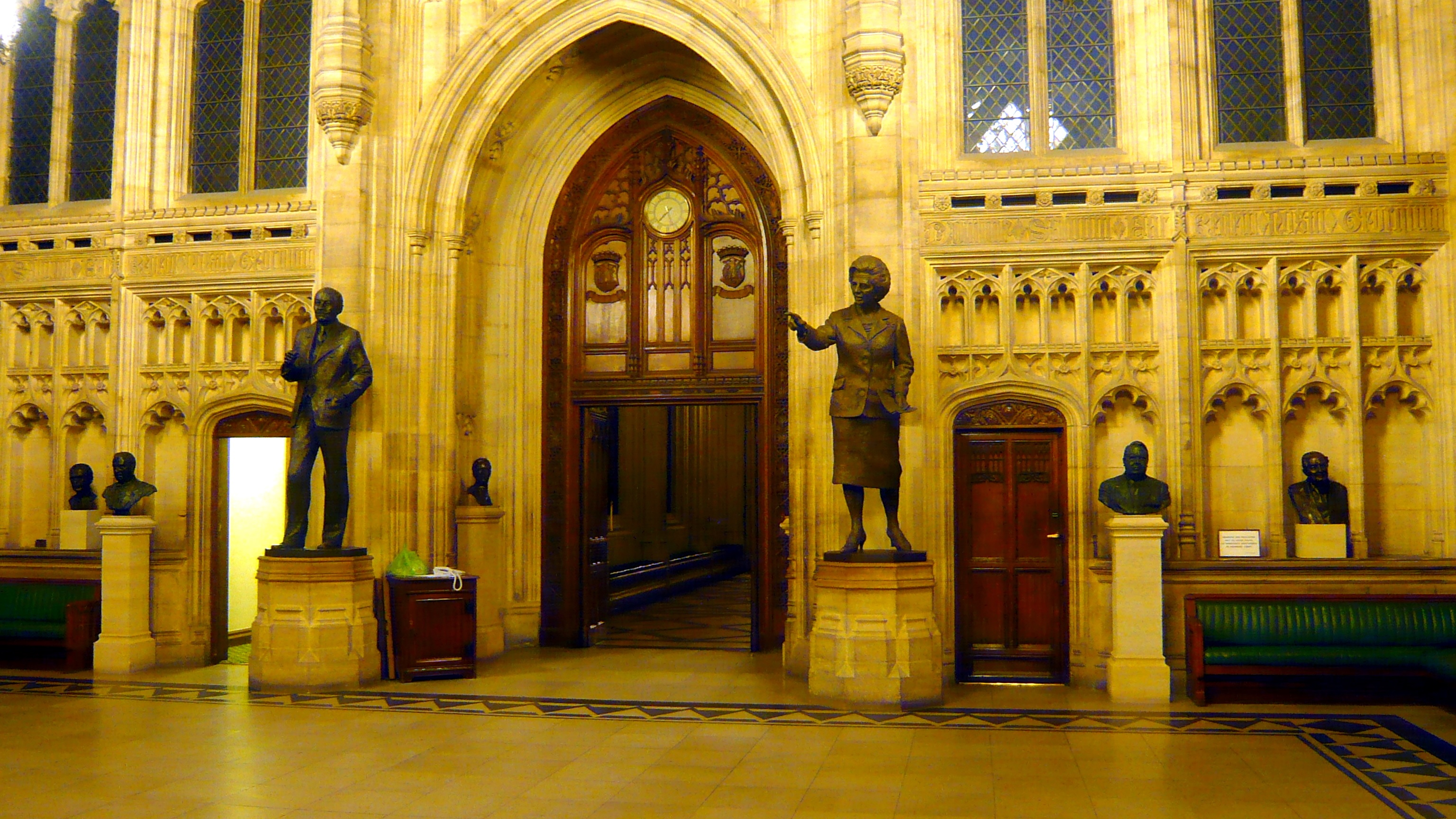 Members' Lobby of the British House of Commons, facing away from the chamber, showing the bronze statues of Clement Attlee and Margaret Thatcher.